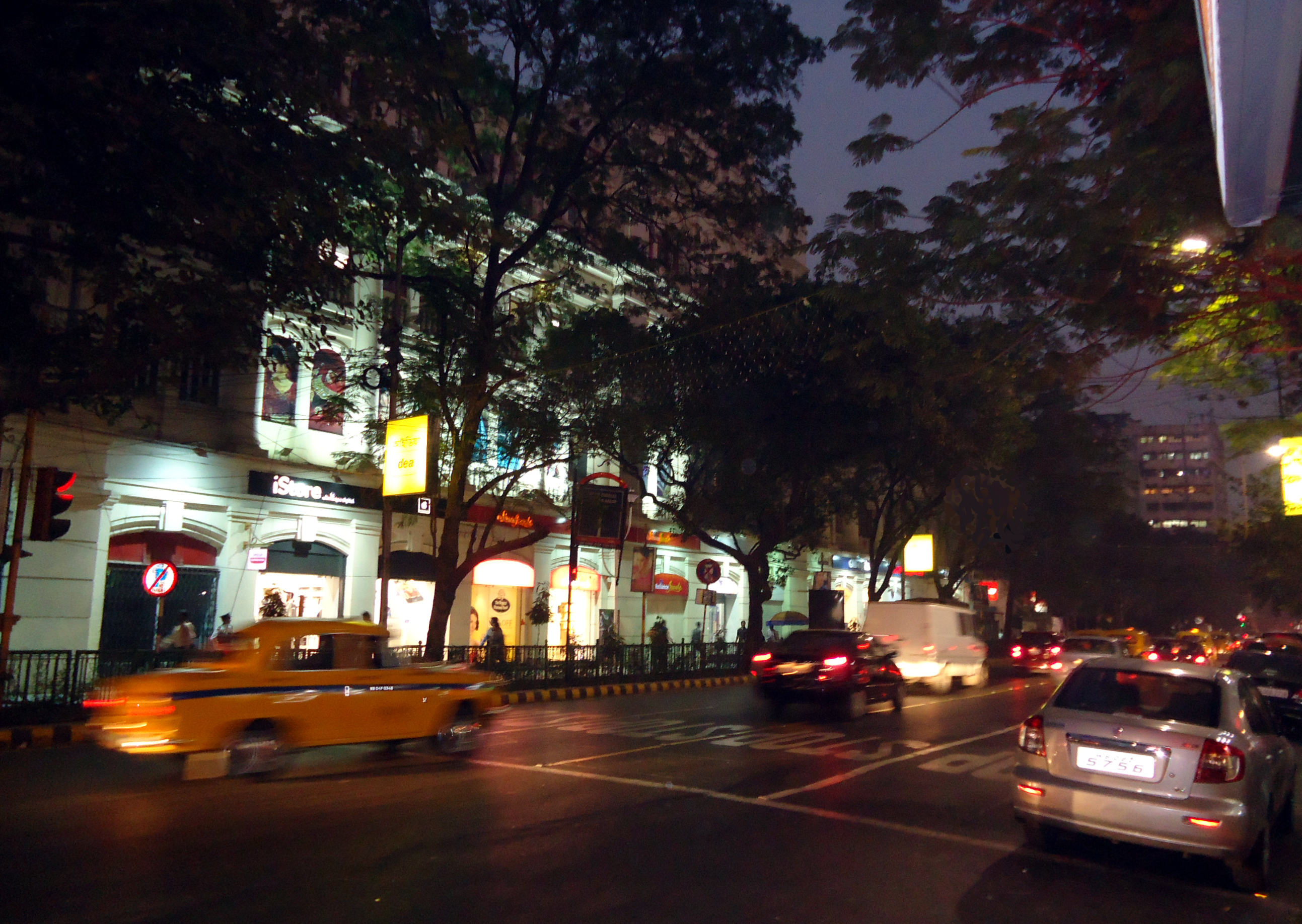 Views of Park Street @ night